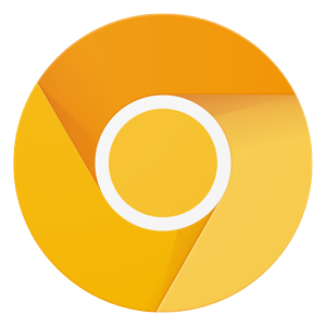 Logo for the unstable Chrome Canary branch of Google Chrome